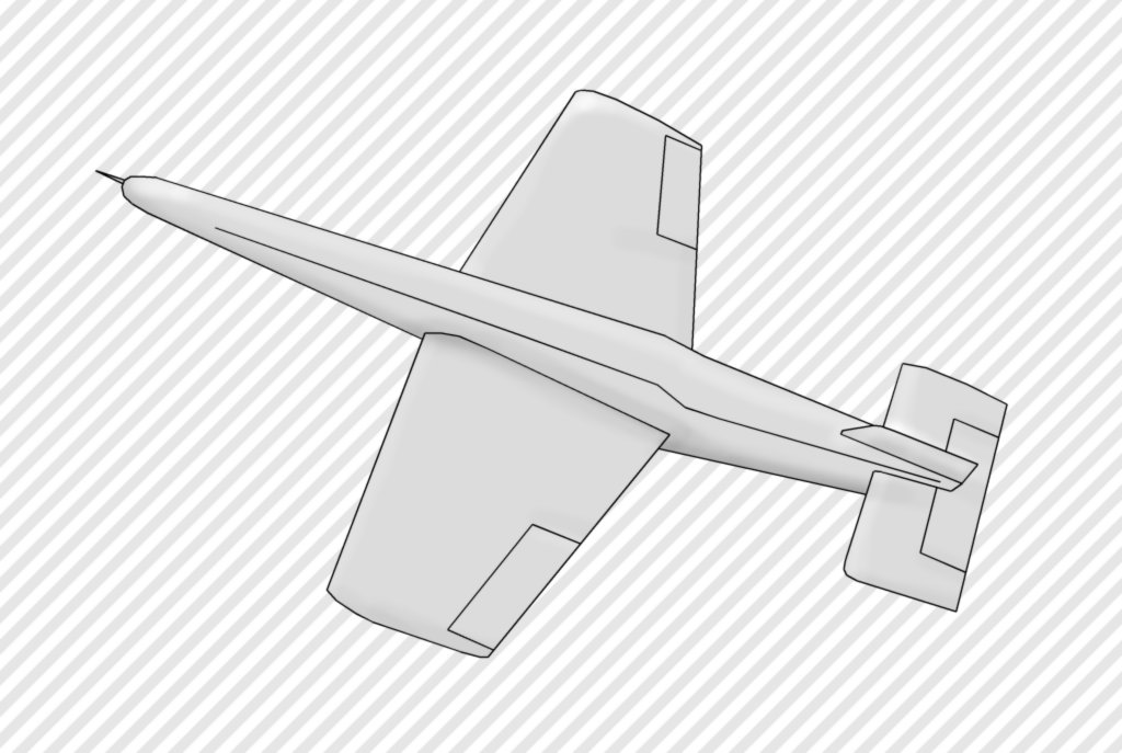 sketch of Henschel Hs 294